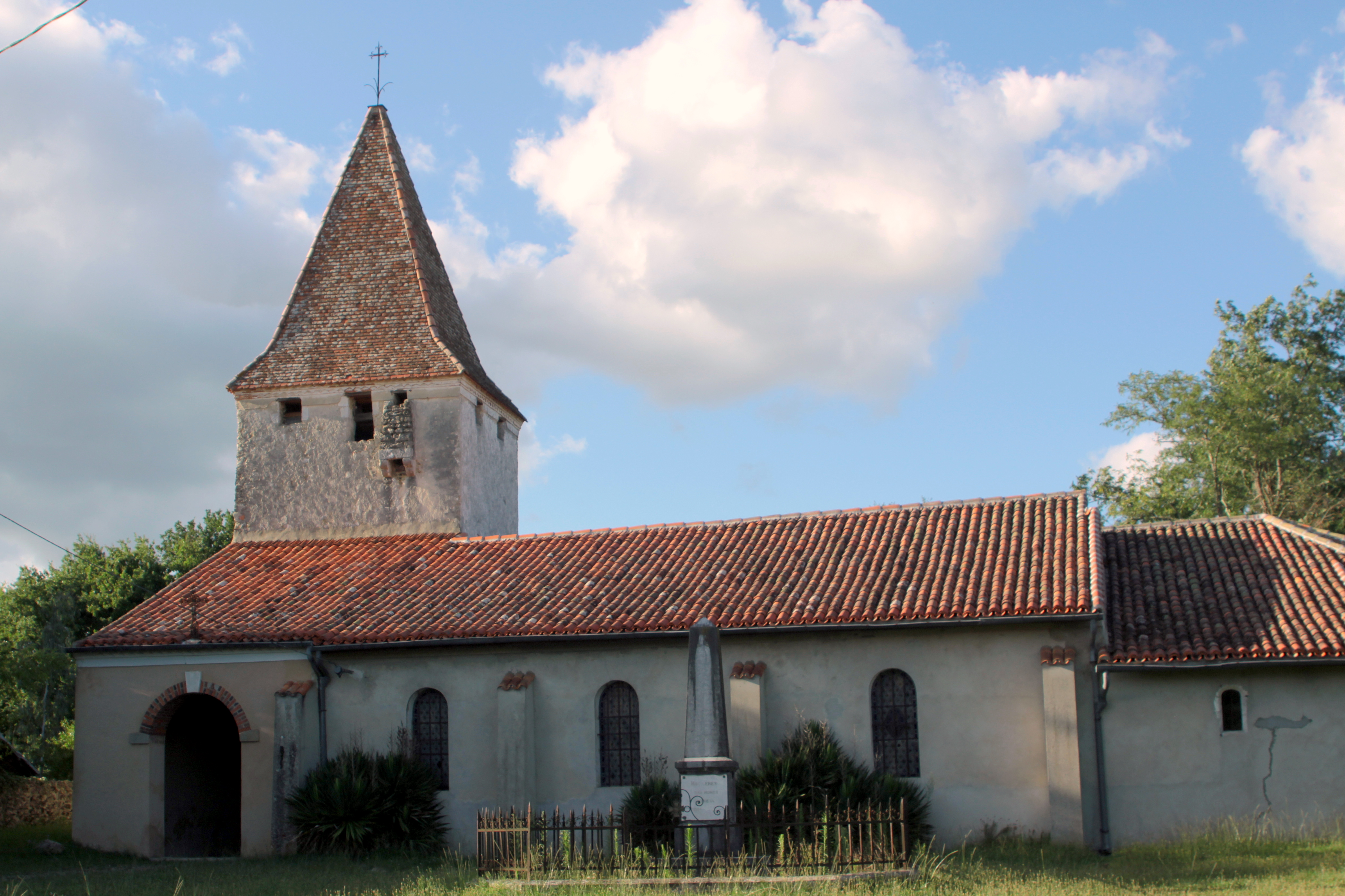 Church Sainte-Quitterie de Maillères (Landes)